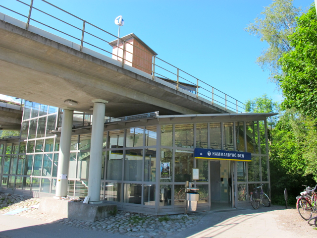 Metro station Hammarbyhöjden in Stockholm